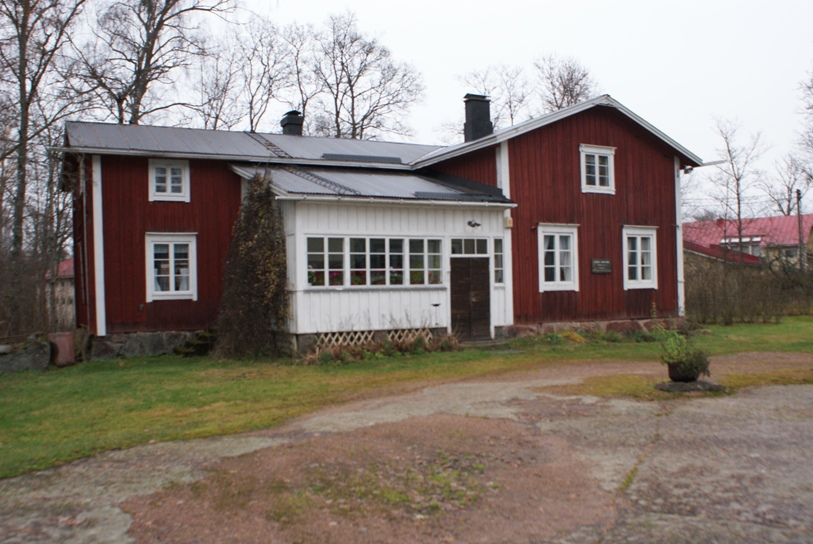 Photo from Kycklings, in Lapinjärvi, Finland.